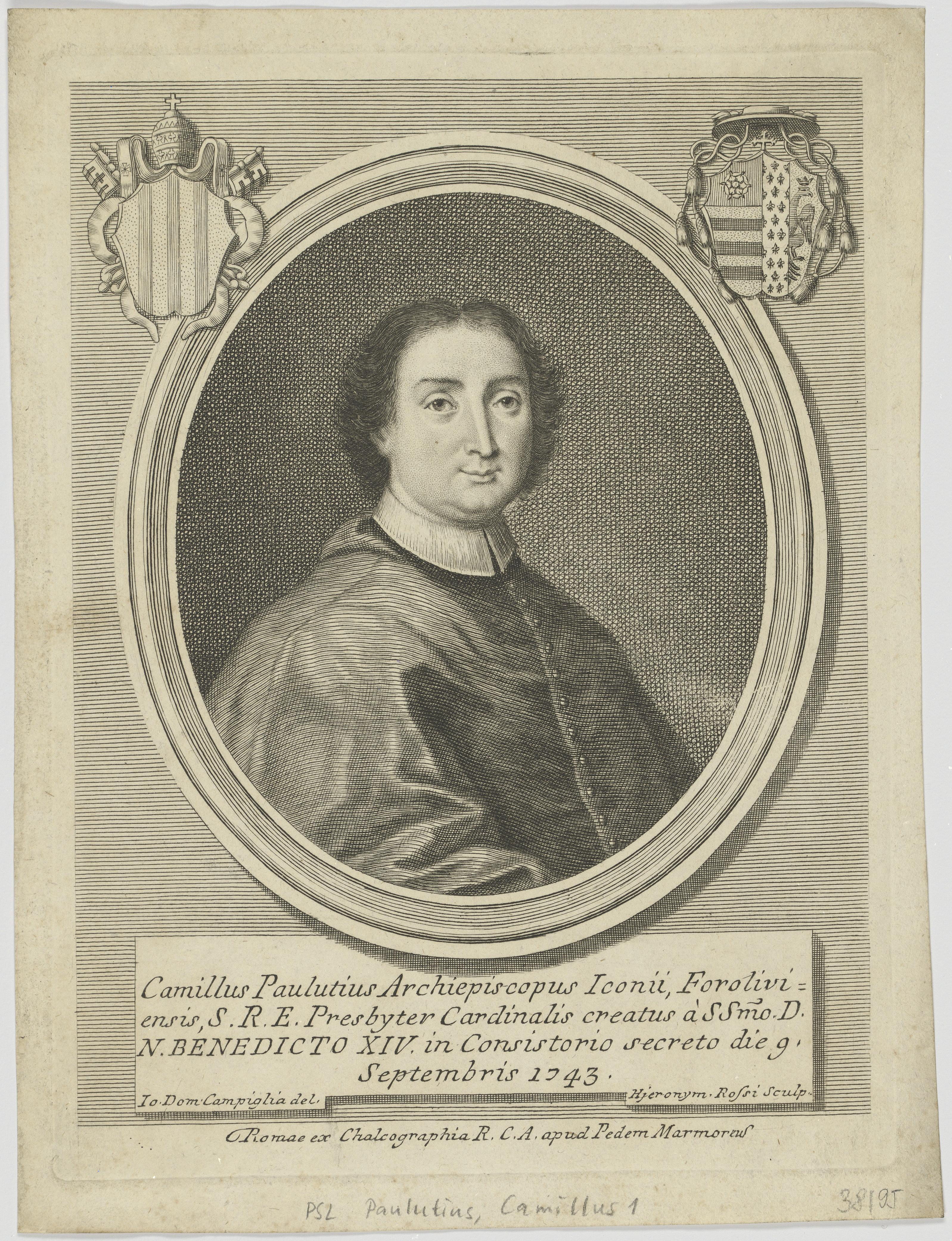 Bildnis des Camillo Paolucci (1692-1763); Universitätsbibliothek Leipzig